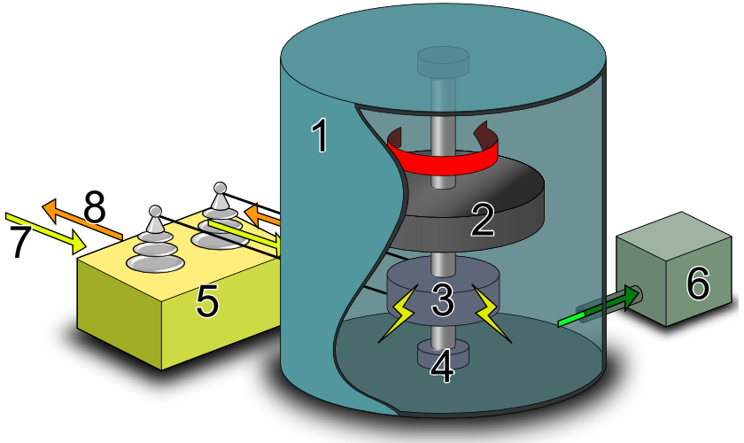 Flywheel-battery (Model) None Text 1.Case 2.Flywheel(Rotor) 3.Generator/Motor 4.Bearing 5.Inverter 6.Vacuum pump 7.Charge 8.Discharge 1.容器 2.フライホイール（ローター） 3.発電機／モーター 4.軸受け 5.インバーター 6.真空ポンプ 7.充電 8.放電